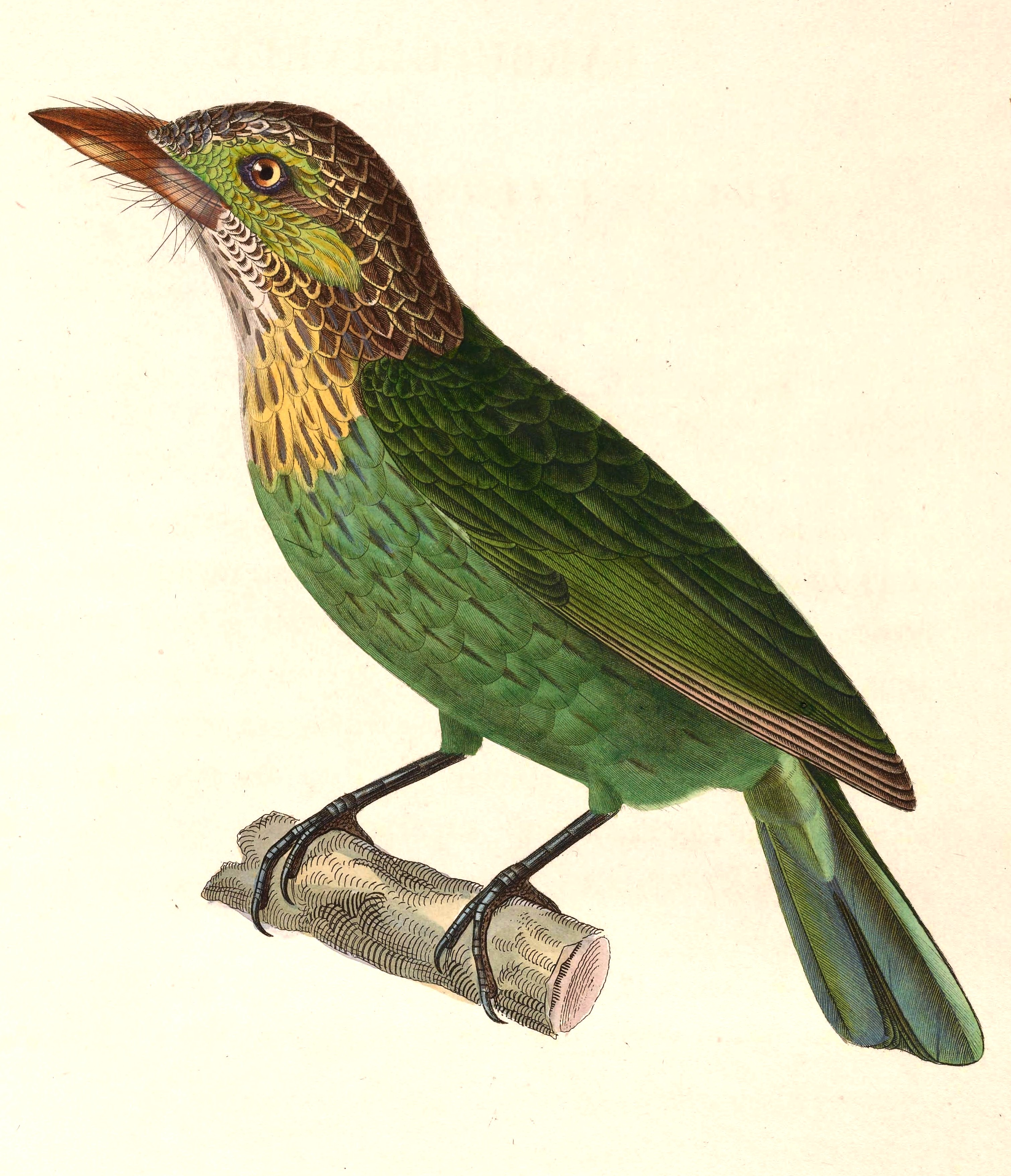 « Bucco faiostrictus » = Megalaima faiostricta (Green-eared Barbet) - adult